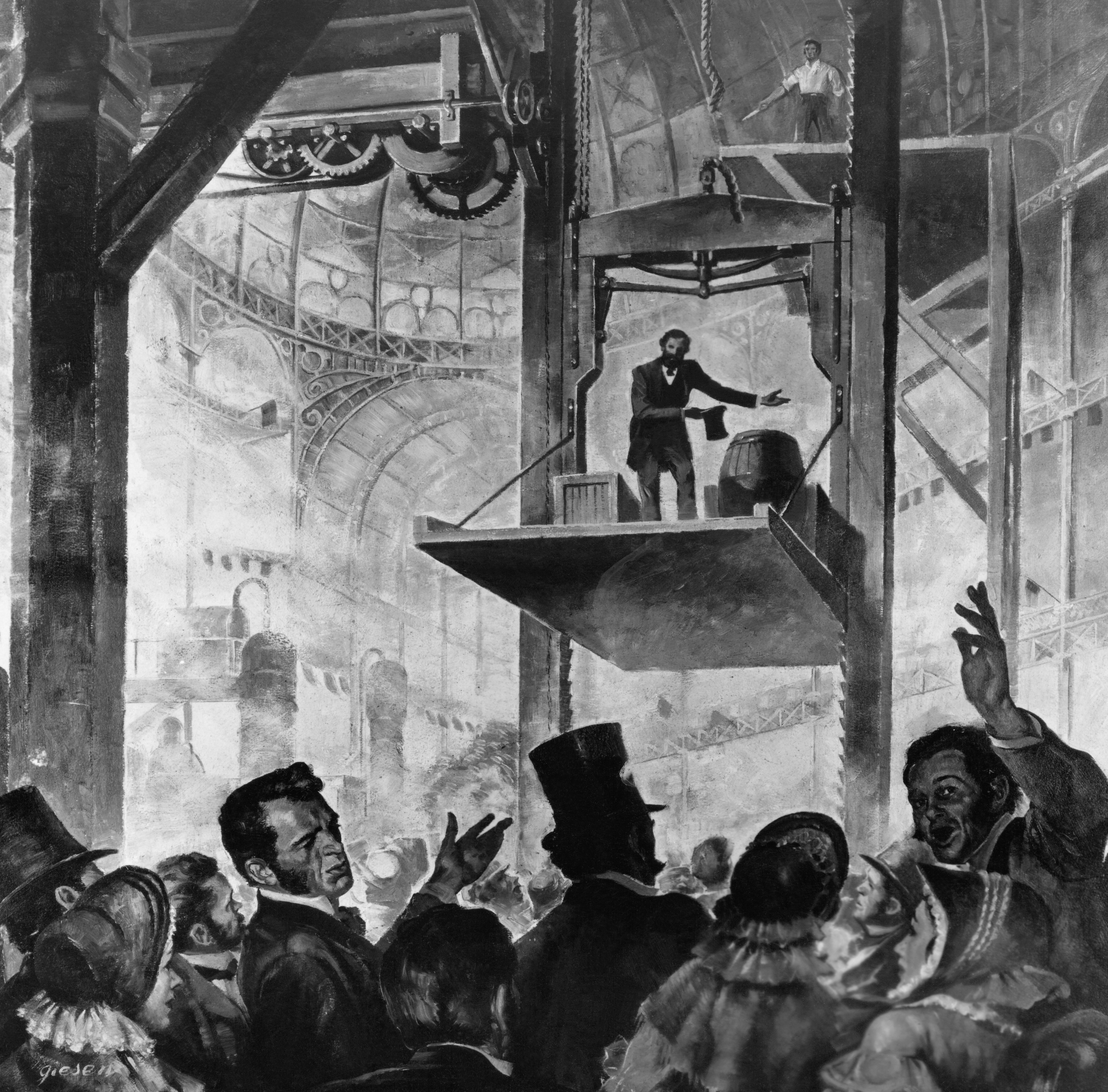 Elisha Otis demo of his free-fall prevention mechanism, Crystal Palace, 1854.